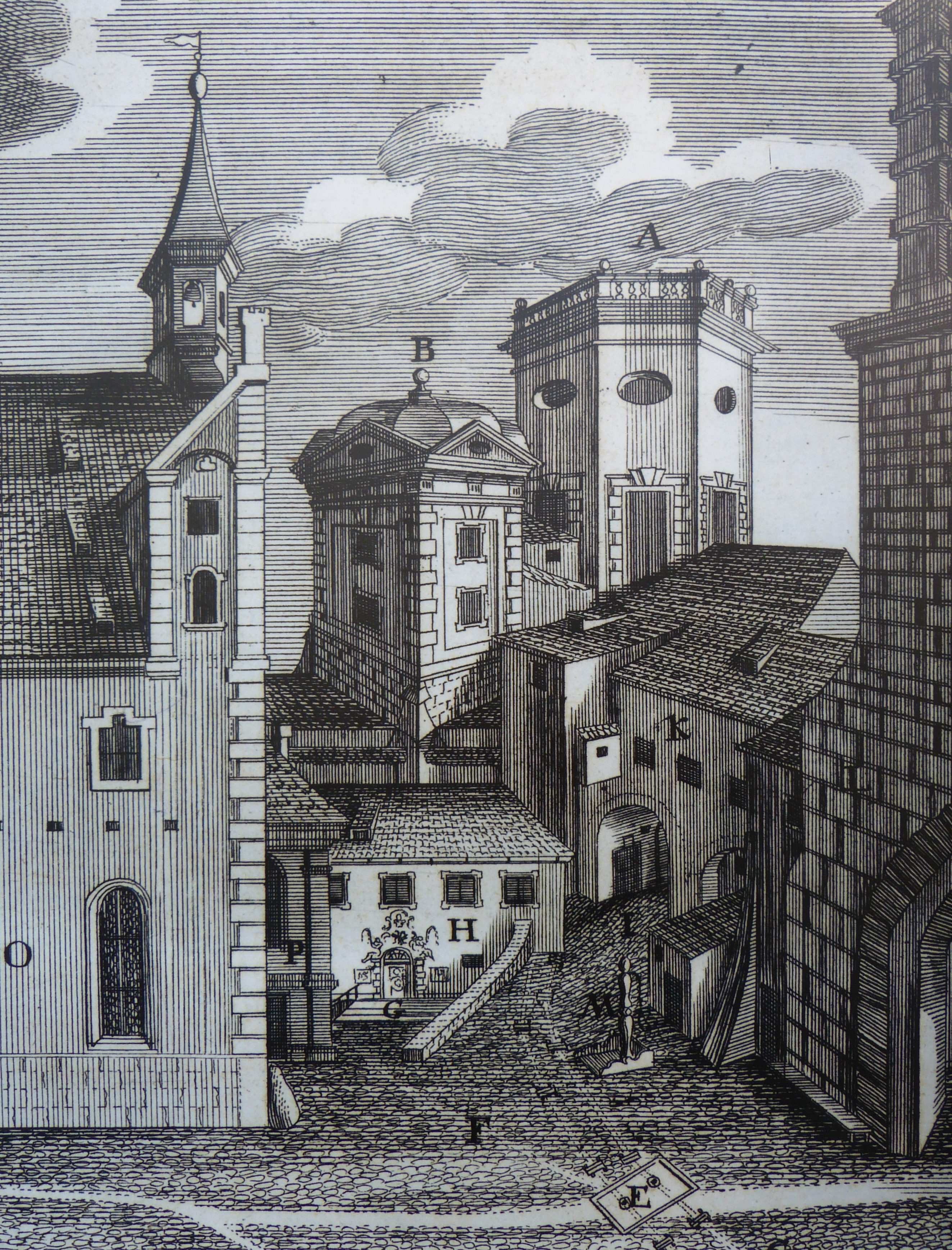 Augsburg, Wassertürme am Roten Tor. Kupferstich von Neßenthaler (Johann David Nessenthaler), um 1760. This is a photograph of an architectural monument.It is on the list of cultural monuments of Bayern